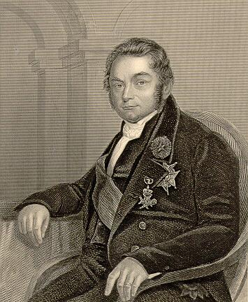 A portrait of the Swedish chemist Jöns Jacob Berzelius (1779–1848). (1875 engraving).